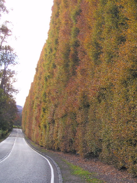 Beech Hedge. The Beech Hedge at Meikleour, Perthshire. Planted in 1746 and the tallest beech hedge in the world.